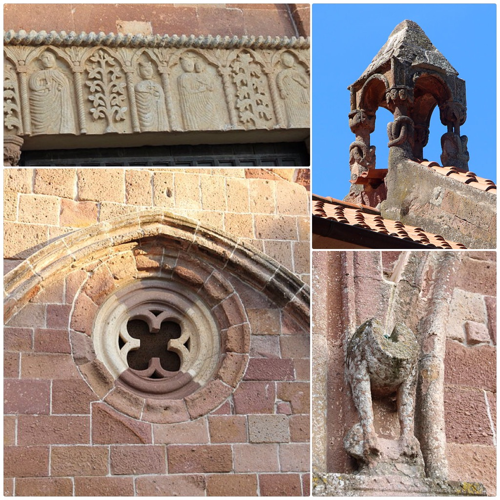 Romanic church of S. Peter, Bosa